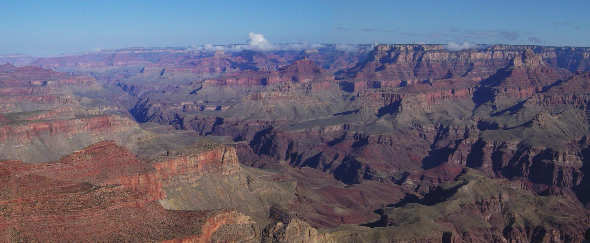 Grand Canyon from Moran Point, opposite Walhalla Plateau-(Kaibab Plateau), Vishnu Temple, right, (flat-top, Kaibab Limestone surface, [white-dark-white, Kaibab-Toroweap-Coconino Sandstone)-Wotans Throne, center-right, (thicker appearing geology-units because closer to Viewpoint than Cape Royal, Walhalla Plateau)